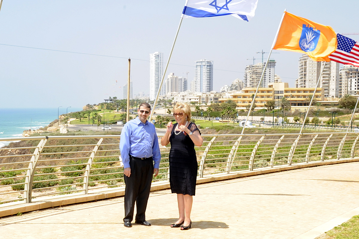 On July 26, 2012, The US Ambassador to Israel, Daniel B. Shapiro visited the city of Netanya, where he met with Mayor Miriam Feirberg.